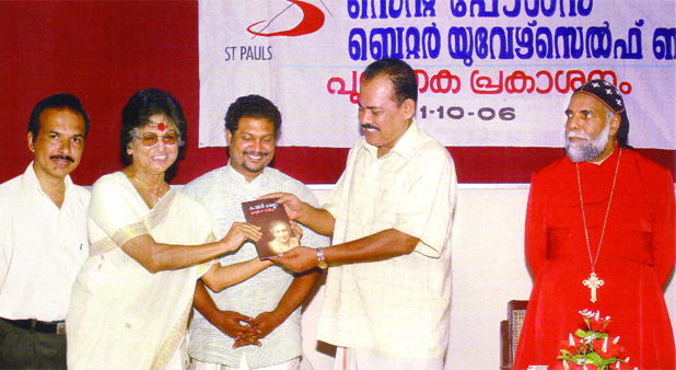 For the use in the article Dr. Sebastian Paul. Photo -cultural function. Nileena joseph (Talk